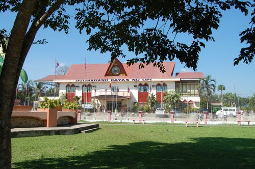 The Municipal Hall of Upi taken in March 2007.